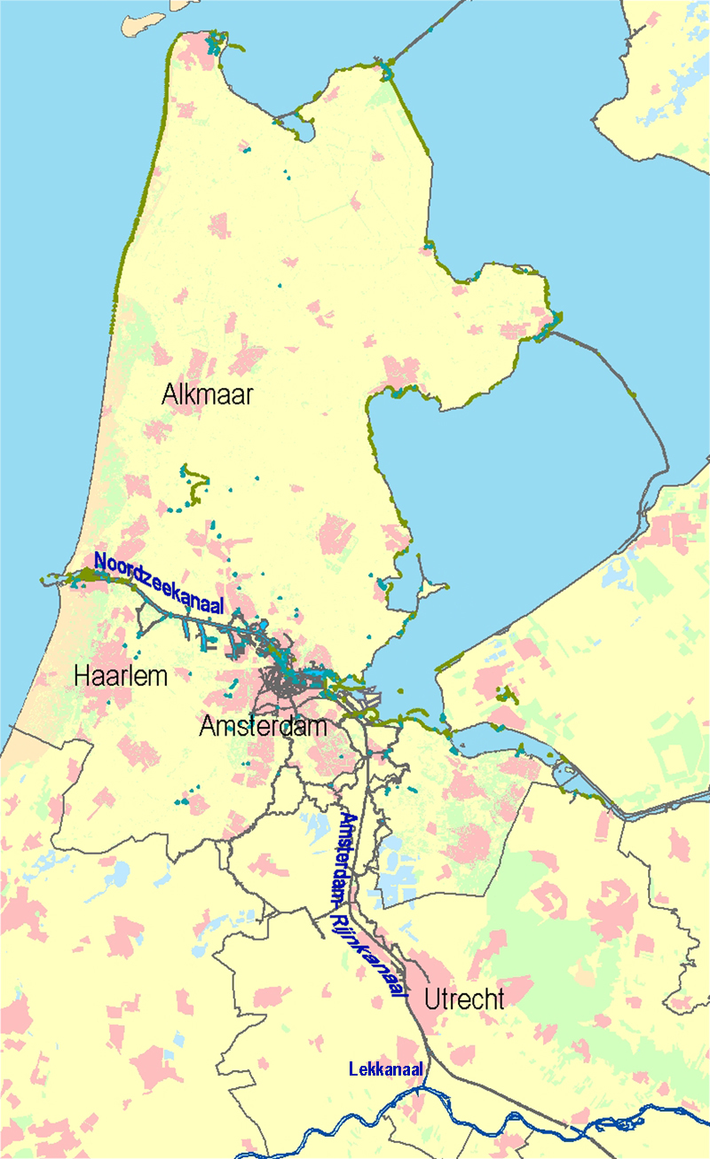 Map of the North sea canal and Amsterdam-Rhine canal.